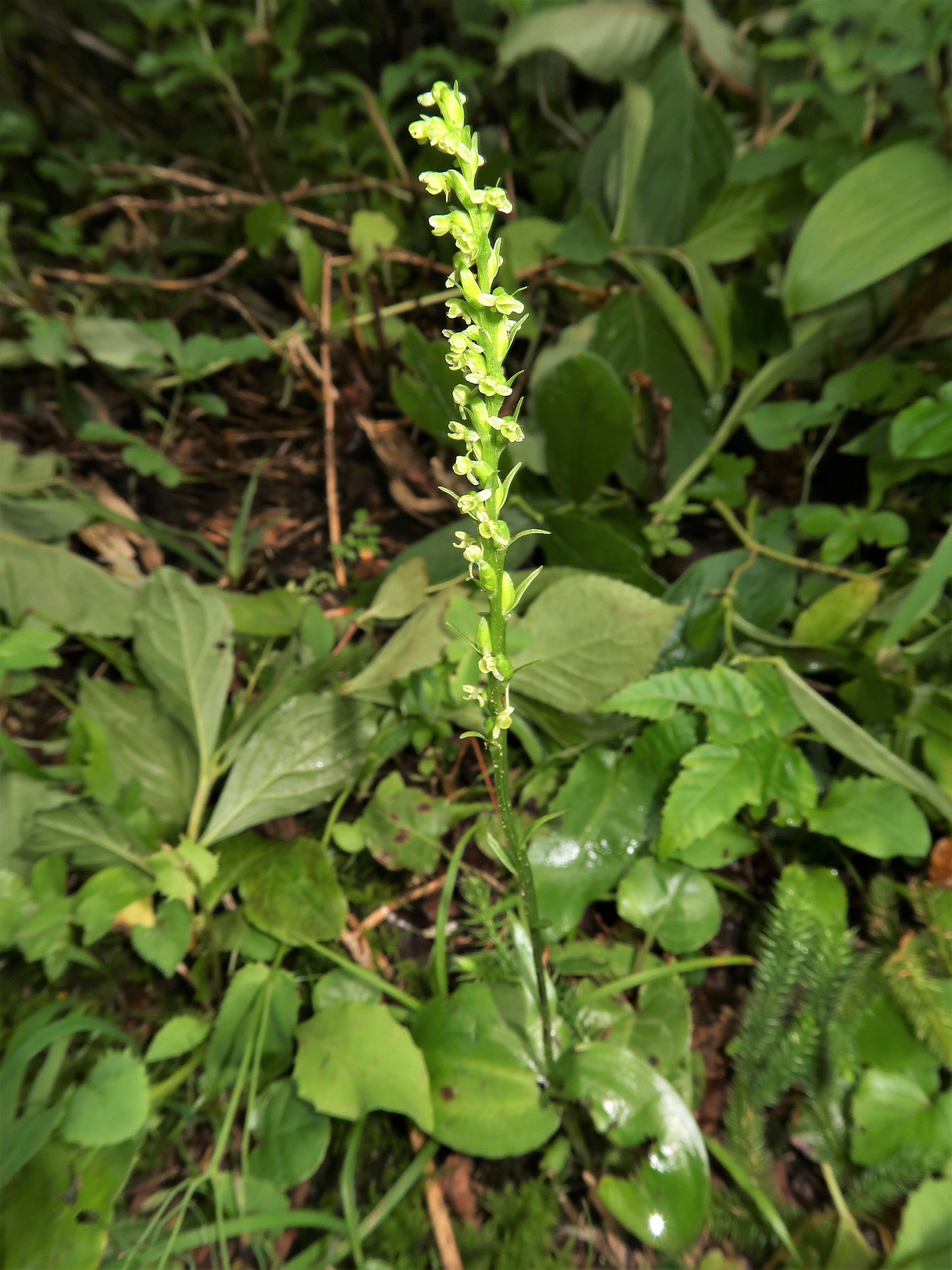 Platanthera chorisiana var. elata, Aizu area, Fukushima pref., Japan